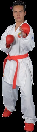 kumite